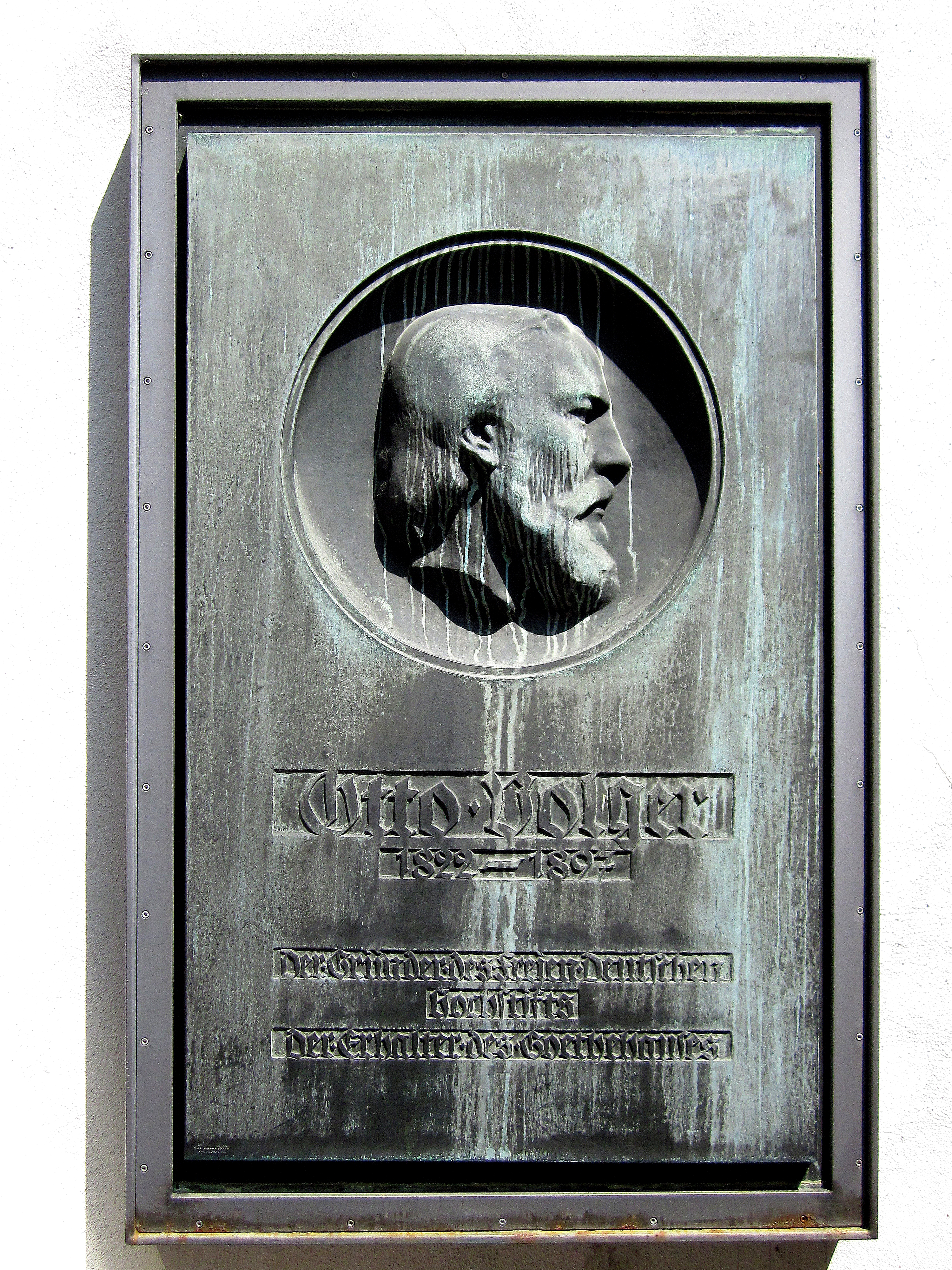 Memorial plaque for Otto Volger at the Goethe House in Frankfurt am Main, Germany.